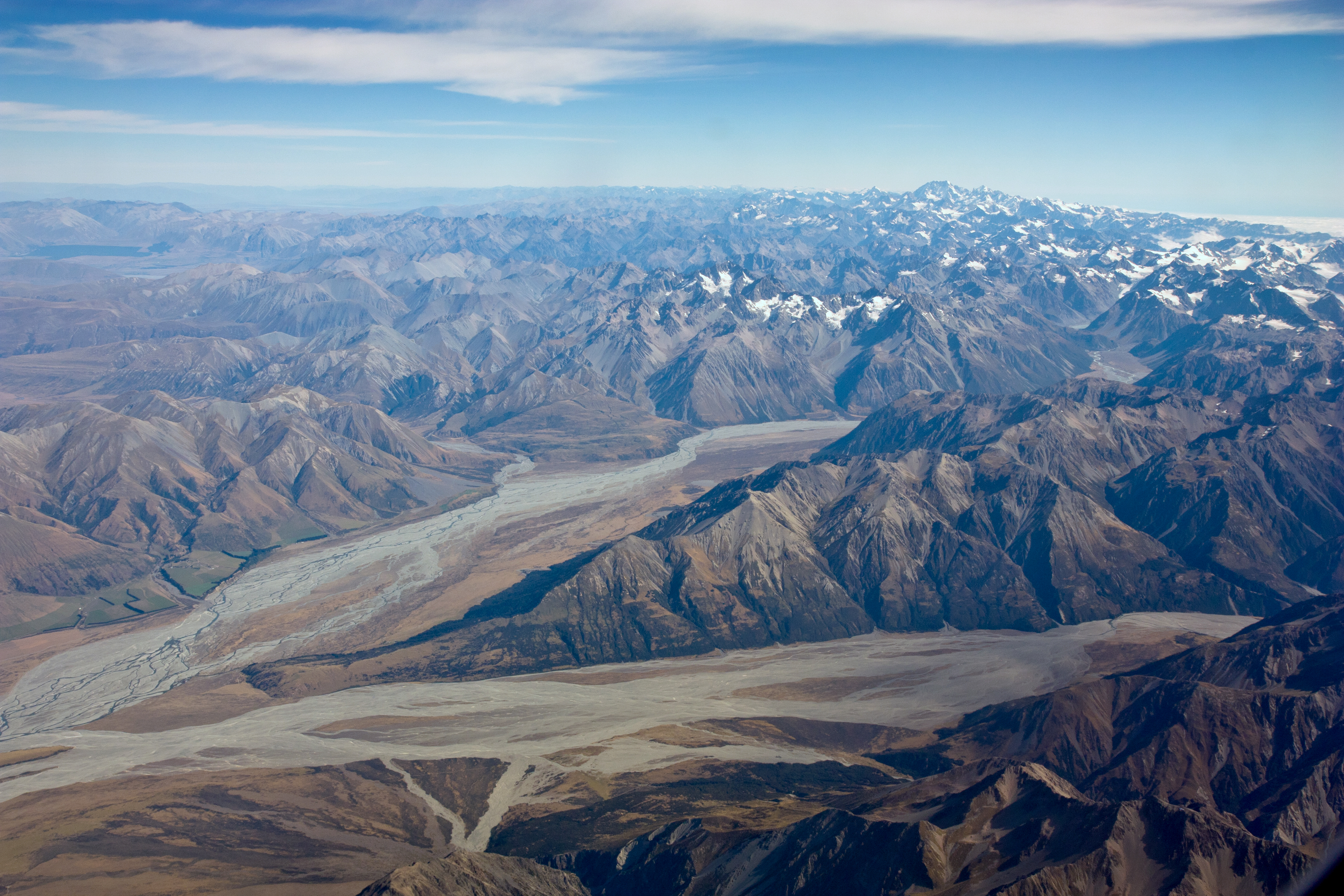 New Zealand mountain ranges